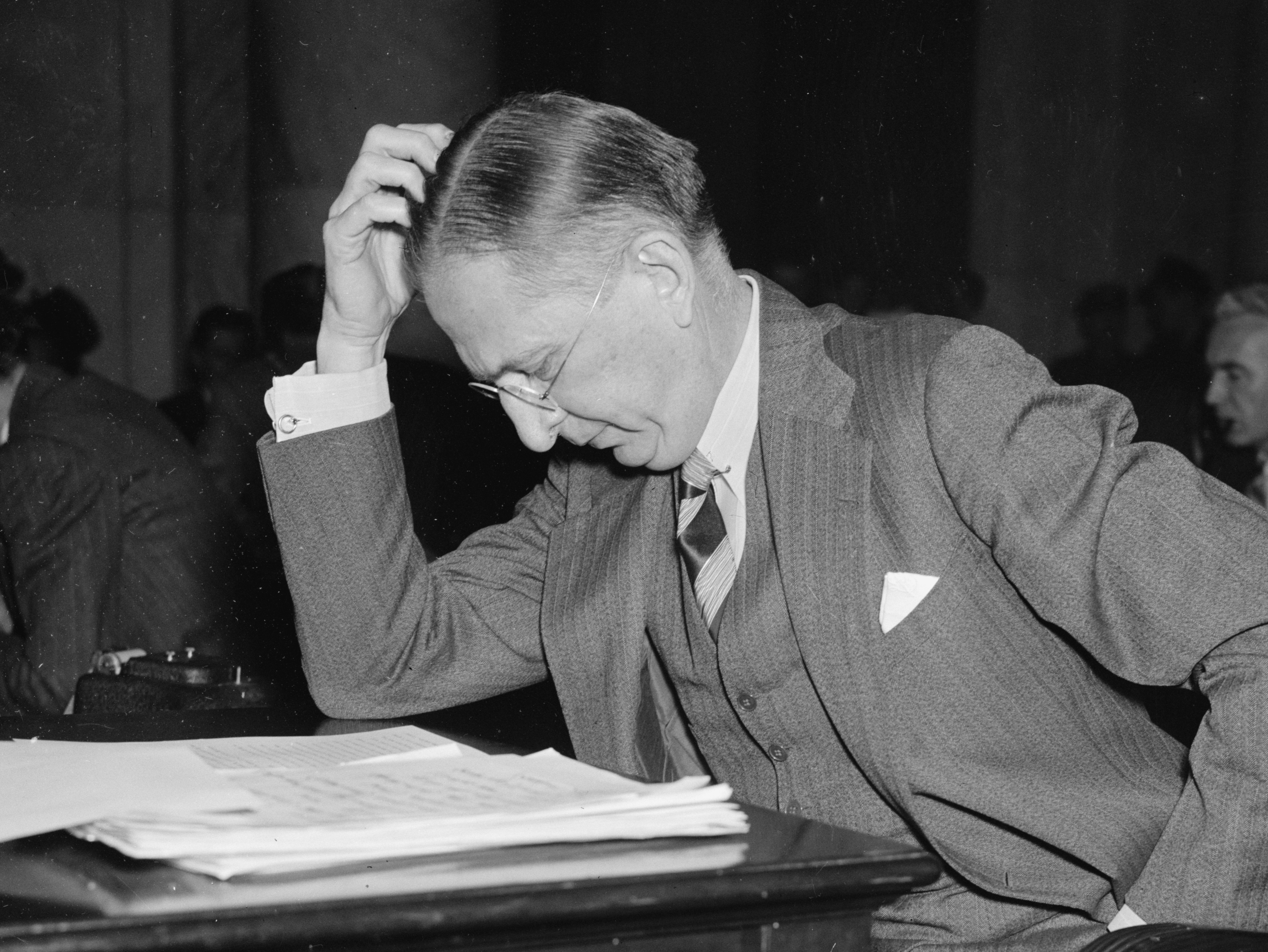 Title: Believes in high wages. Washington, D.C., Jan. 10. Admitting his belief in high wages and the increased buying power therefrom, Lammot Du Pont, President of Du Pont De Nemours & Co., told the Senate Unemployment Committee today that America can be prosperous only by serving better and diversified industries which use our products, 1/10/38 Abstract/medium: 1 negative : glass ; 4 x 5 in. or smaller